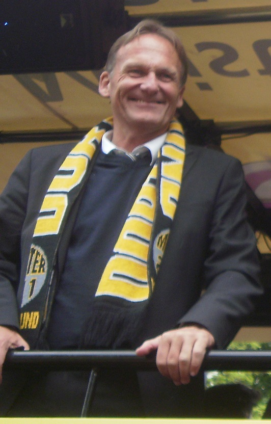 Borussia Dortmund CEO Hans-Joachim Watzke during the celebration of Dortmund winning the Bundesliga in 2011.